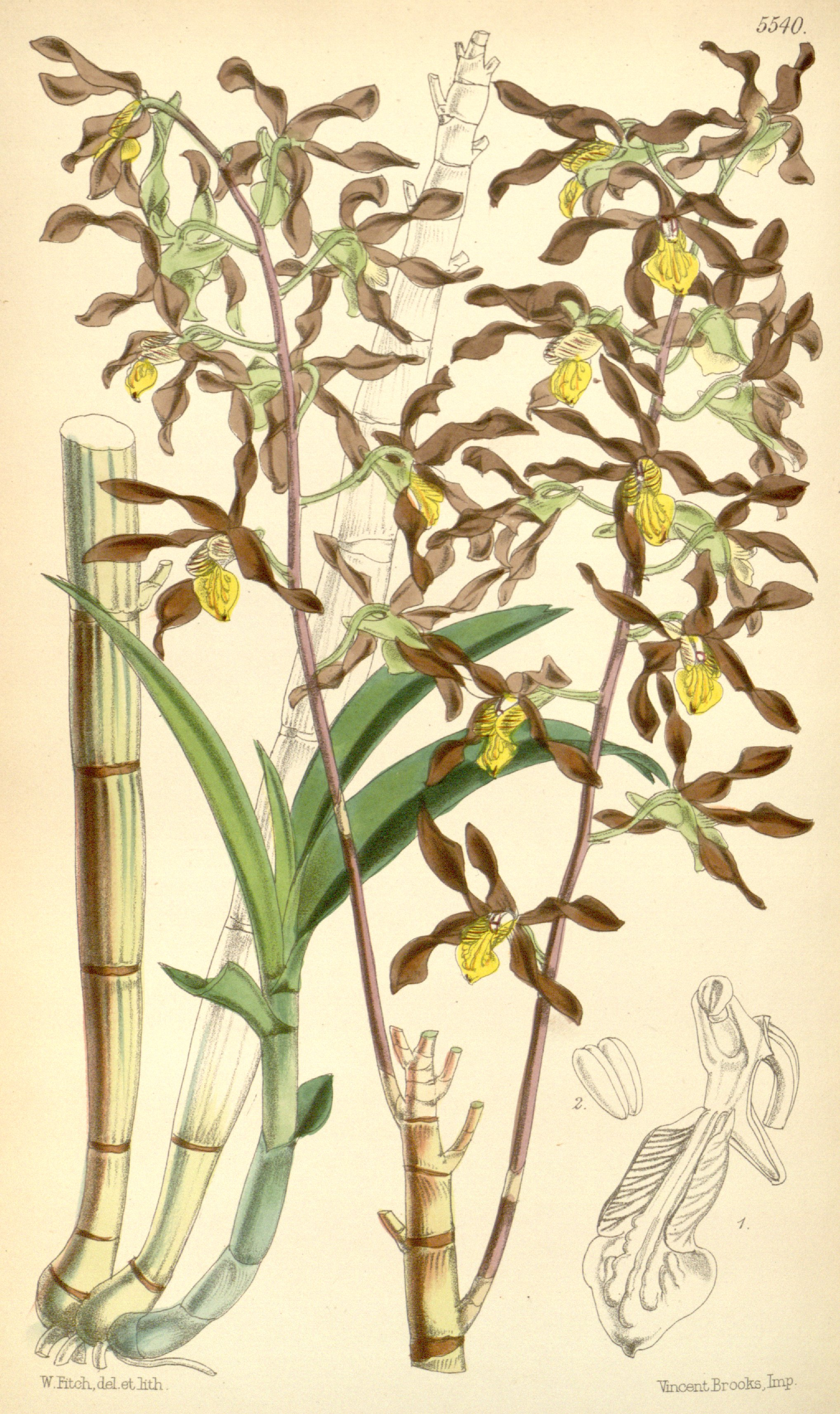 Illustration of Dendrobium johannis